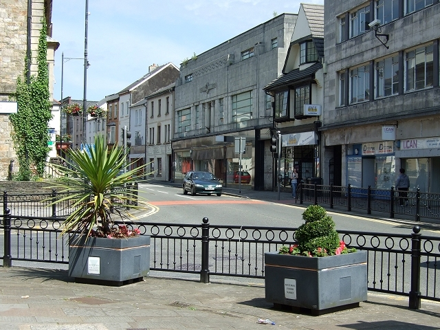 Commercial Street, Pontypool